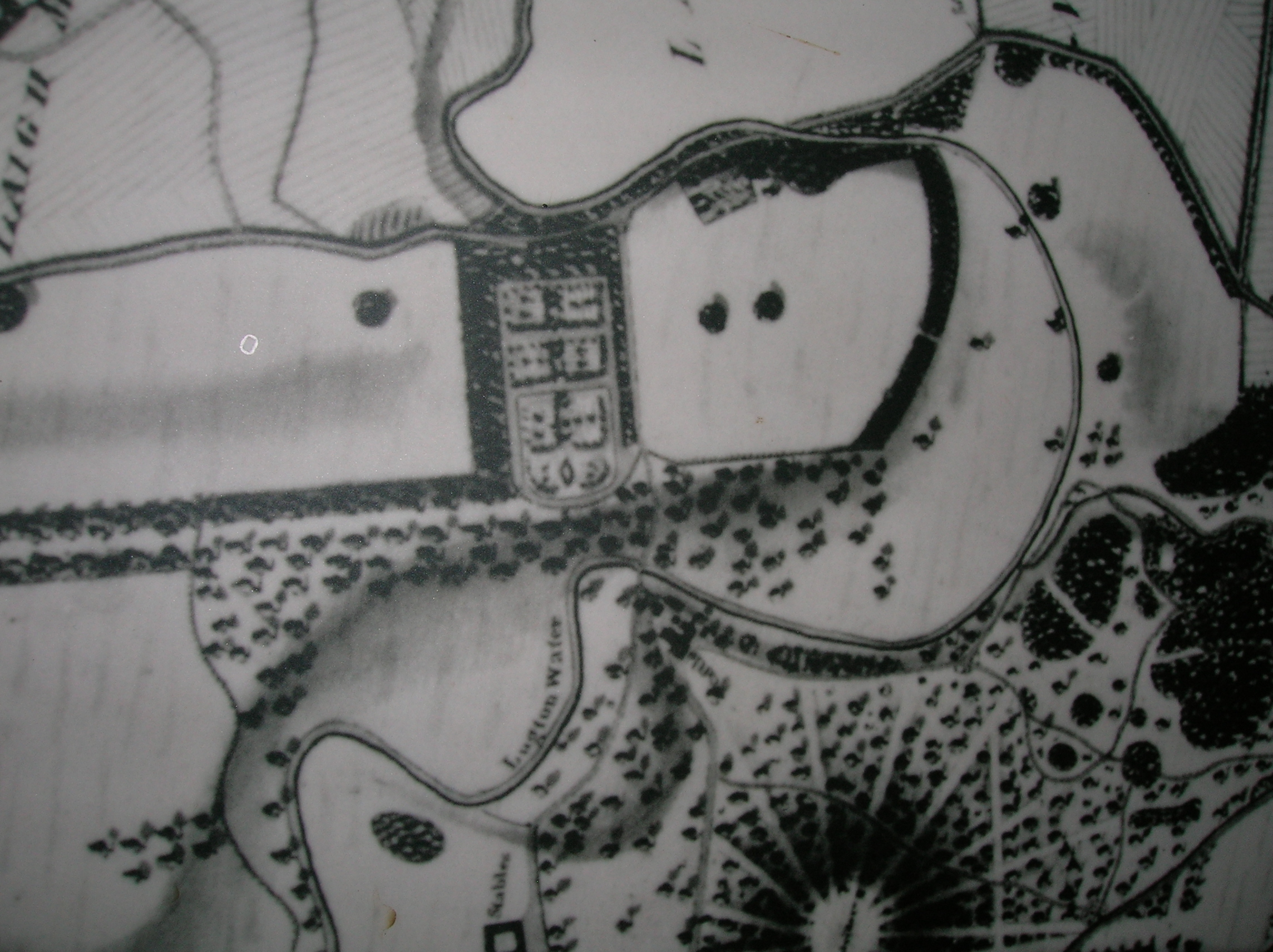 a map of Eglinton Castle, Ayrshire, Scotland.